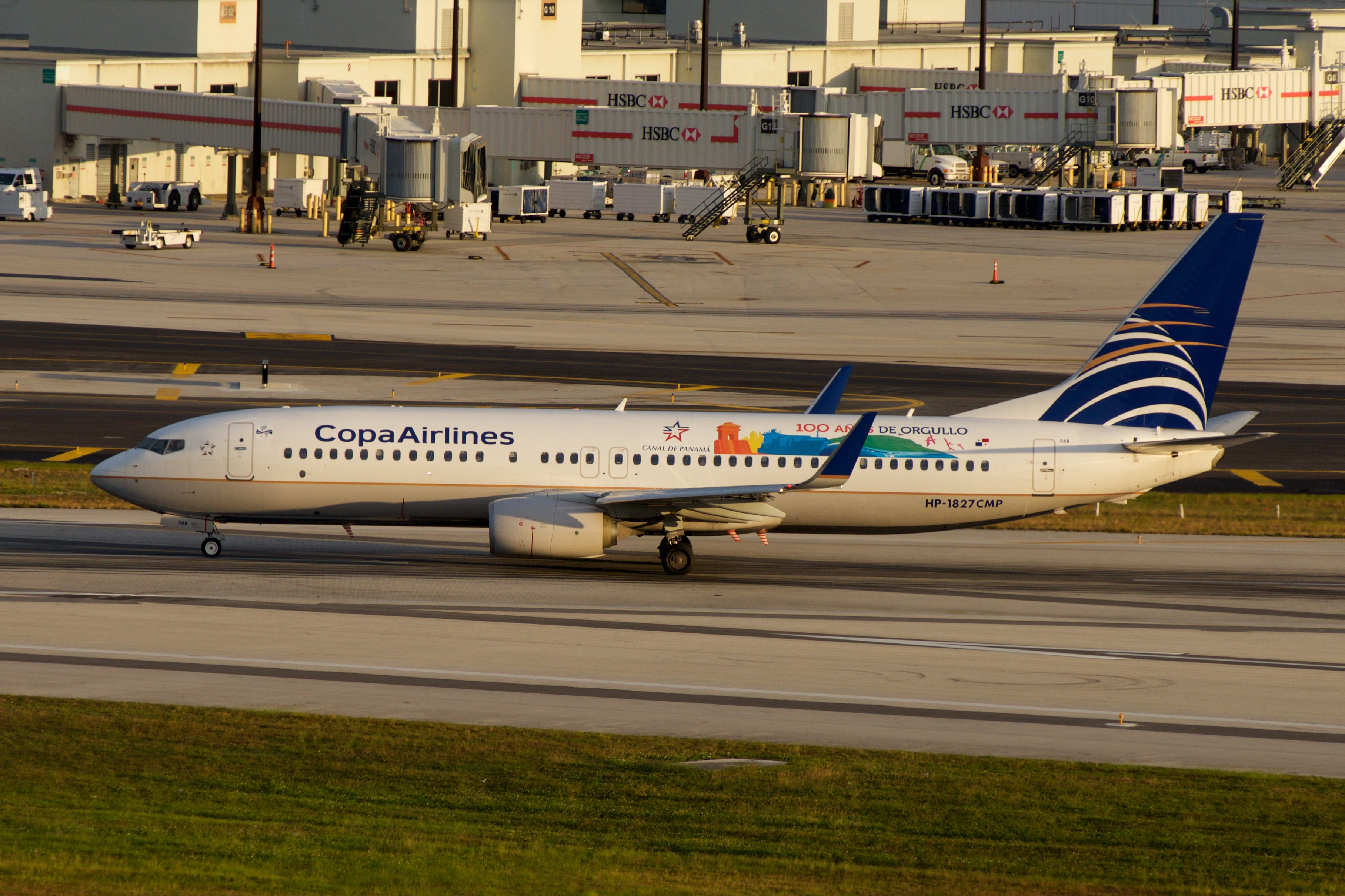 Departing MIA early with special sticker commemorating 100 years of the Panama canal.